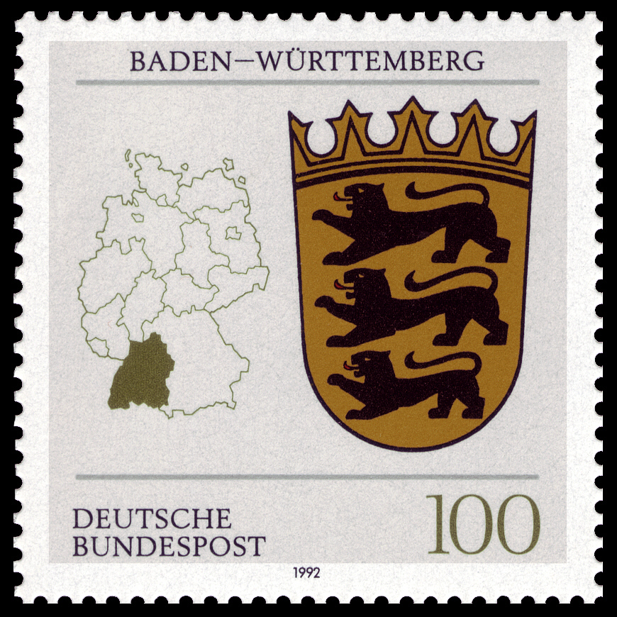 Coats of arms of the 16 states of Germany Ausgabepreis: 100 Pfennig First Day of Issue / Erstausgabetag: 9. Januar 1992 Michel-Katalog-Nr: 1586 Designer: Jünger